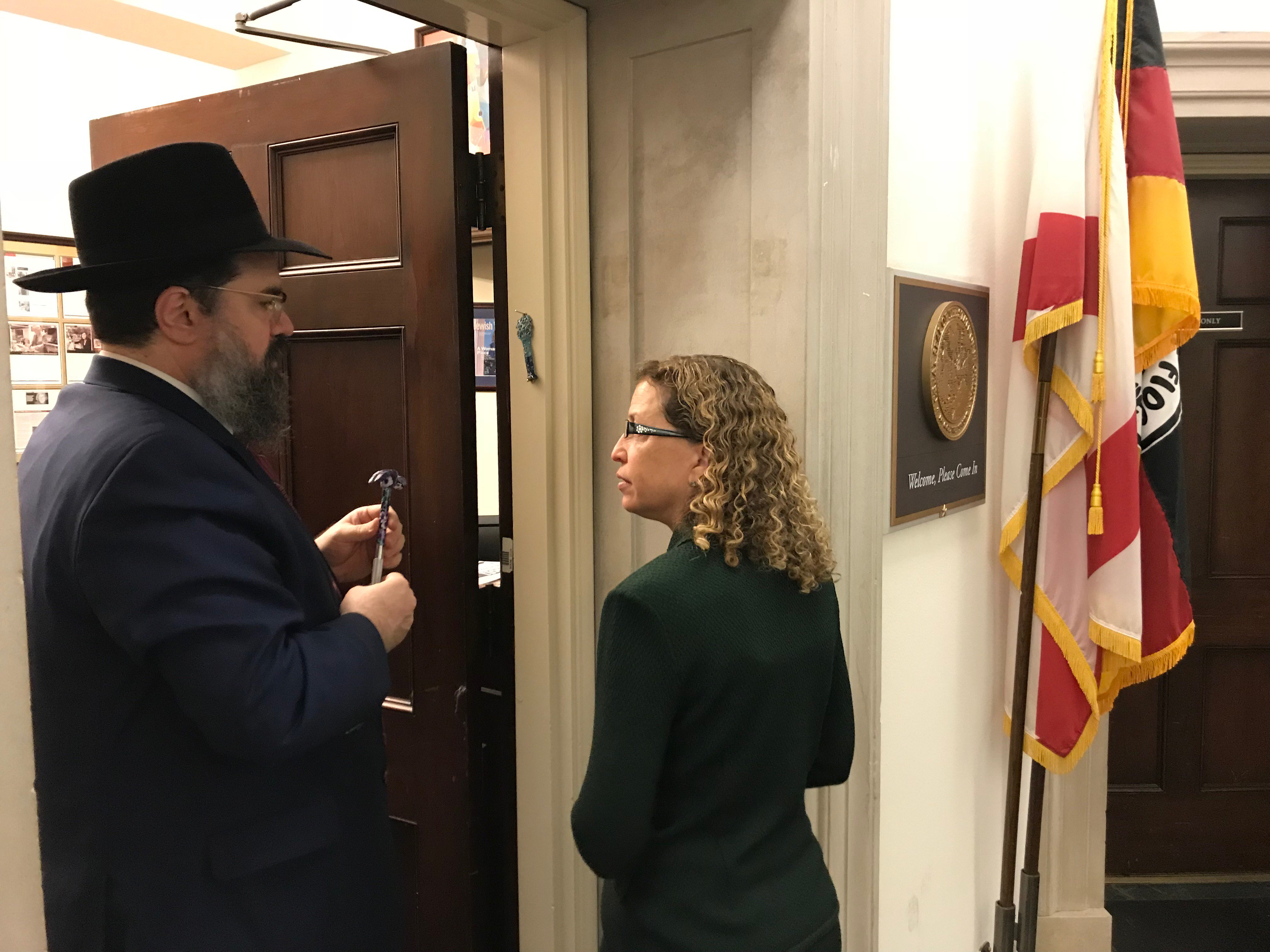 Thank you Rabbi Shemtov, the "Rabbi of Capitol Hill," for stopping by today to affix a new mezuzah to the door frame of my office in Washington!